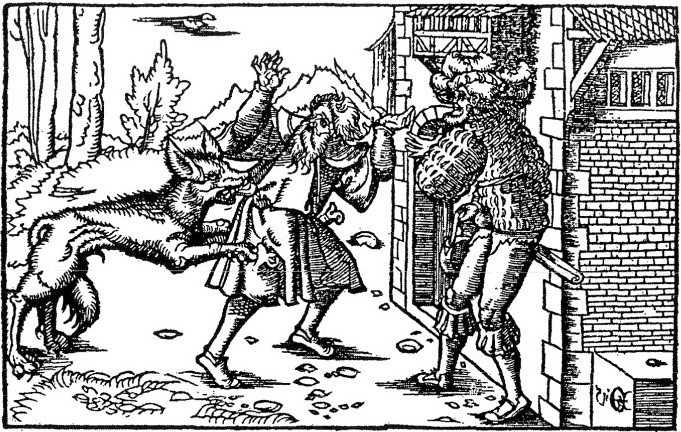 Werewolf attack, woodcut from Kaysersberg's Die Emeis (1517)